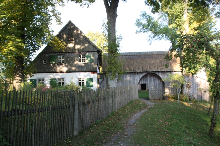 Museum of a old oberfränkisch farm im the village Kleinlosnitz